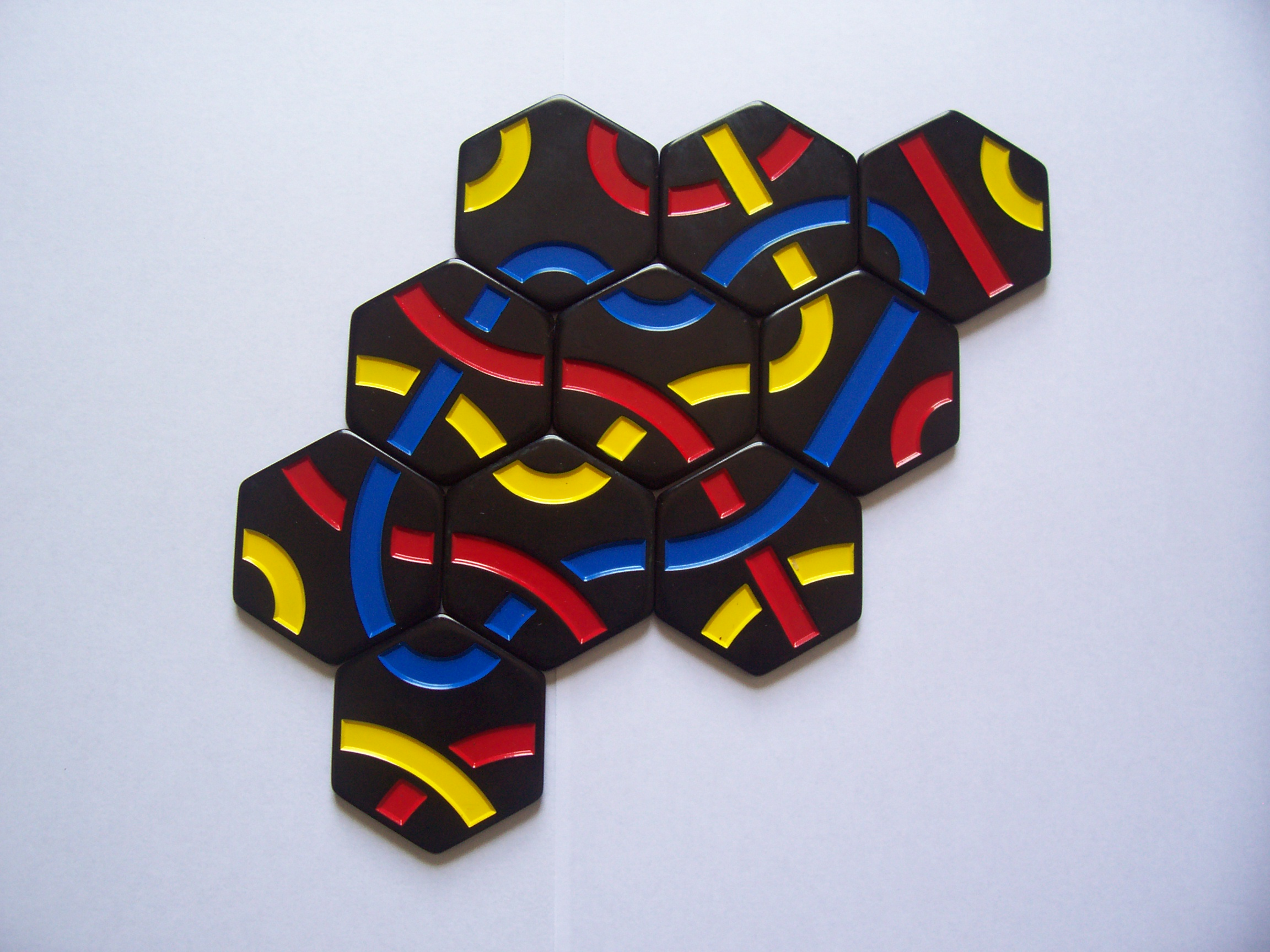 Tantrix Discovery, the basic version of Tantrix (1 player)